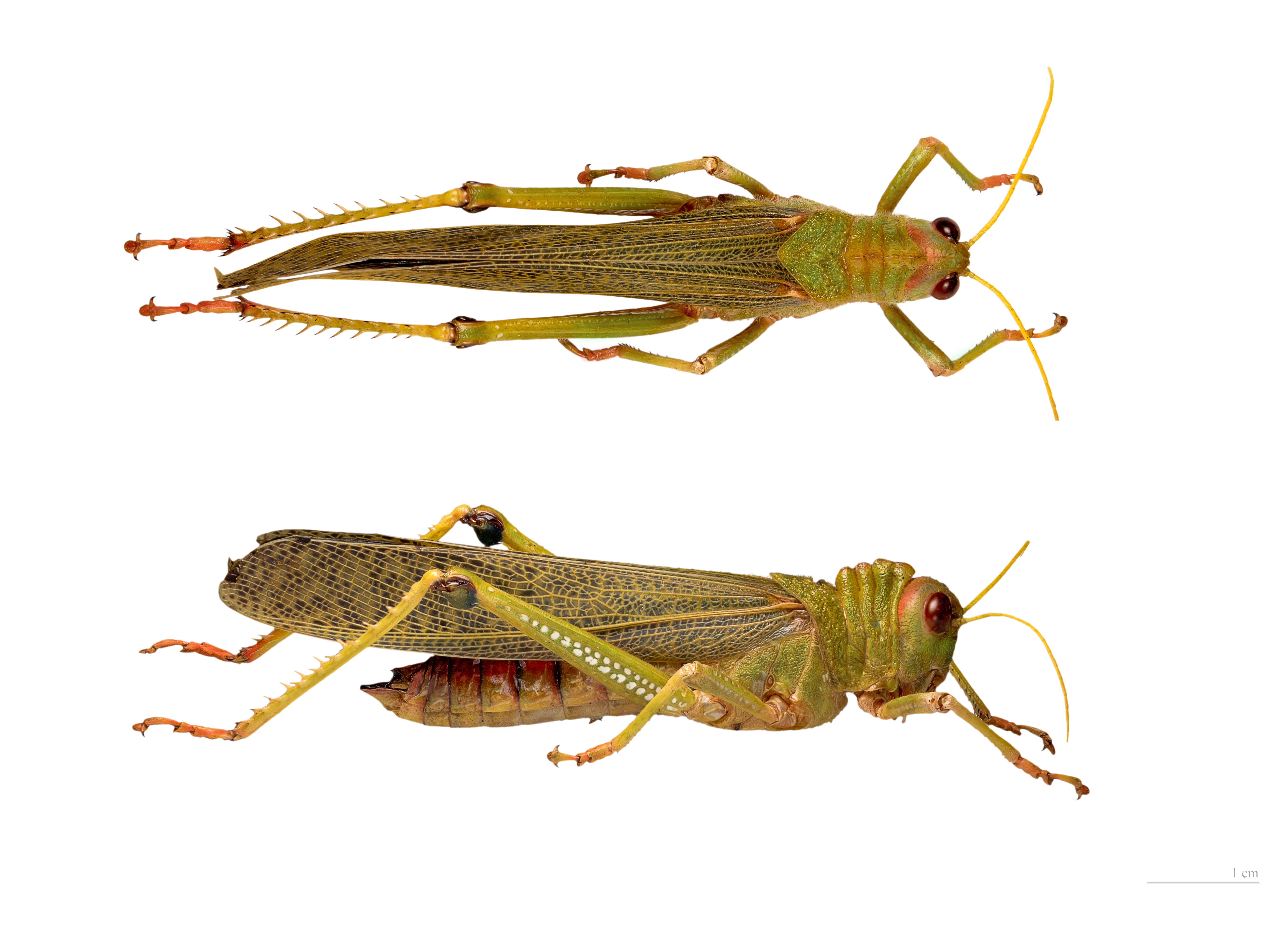 ♂ - Two views of same specimen Locality : Route de Kaw, PK40, French Guiana.